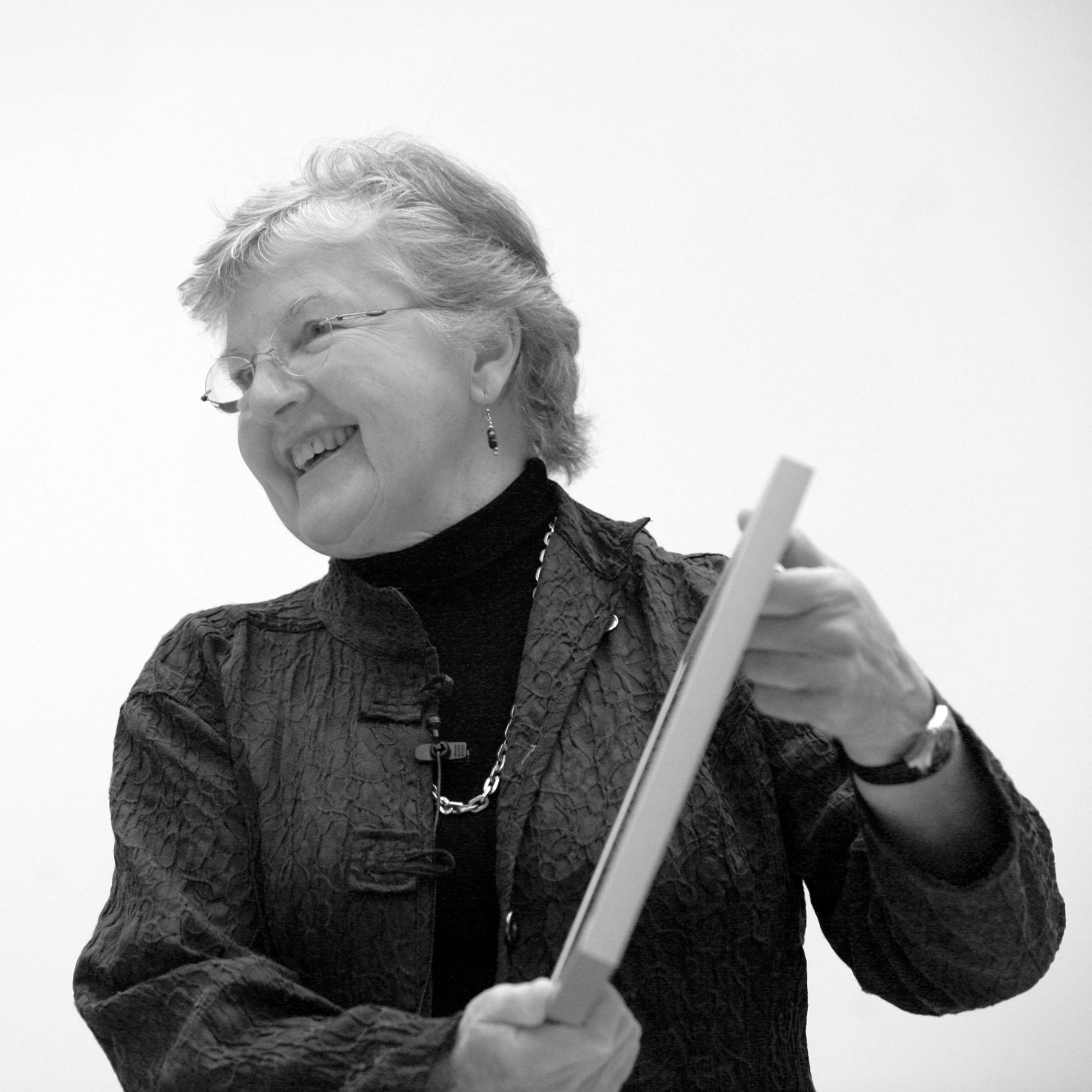 Frances E. Allen recieving the Erna Hamburger Distinguished Lecture Award at the EPFL